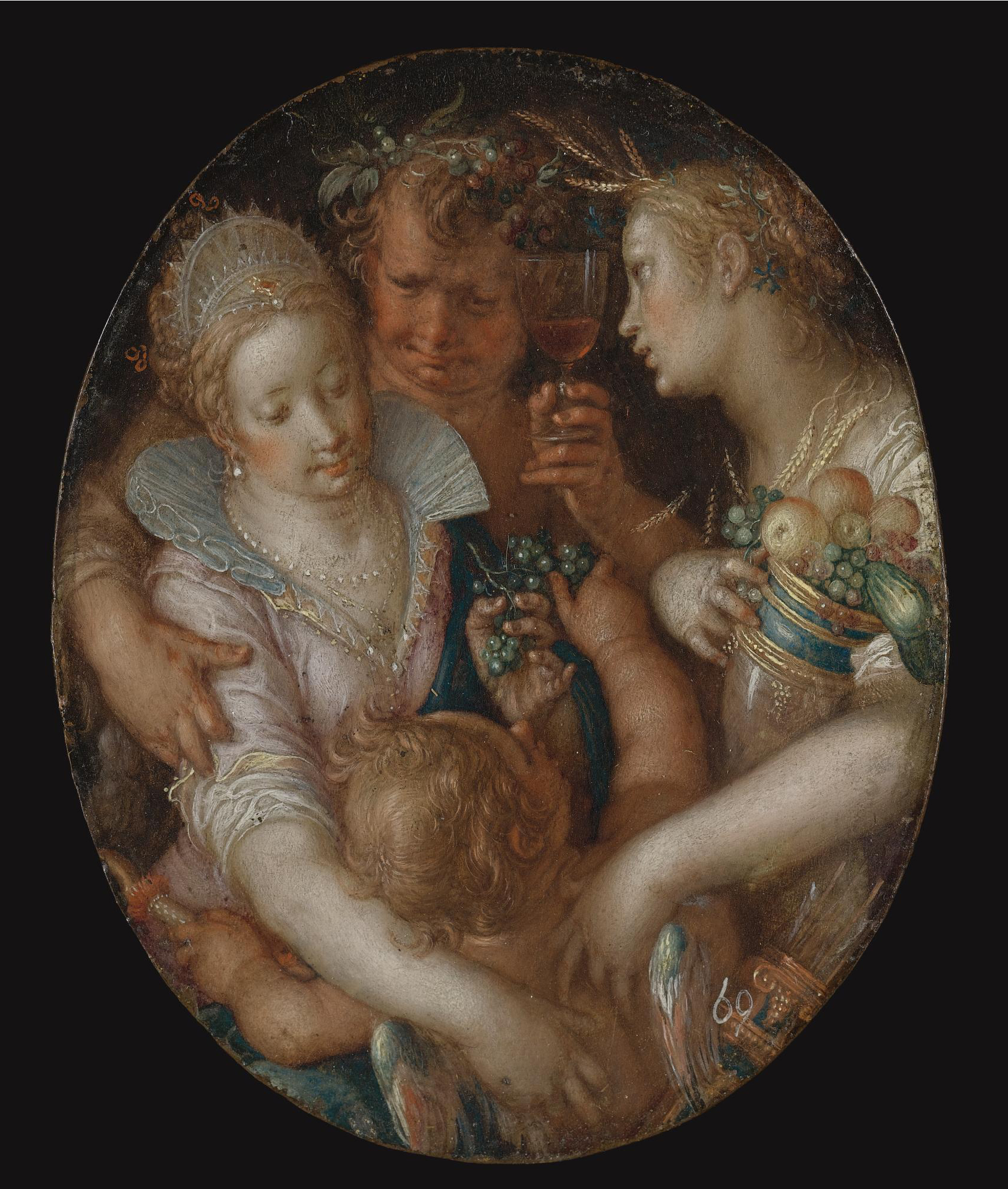 Joachem Wtewael: Sine Cerere et Baccho friget Venus, oil on copper, 10,5 x 8,6 cm, sold at auction at Sotheby's New Yoork, March 2008